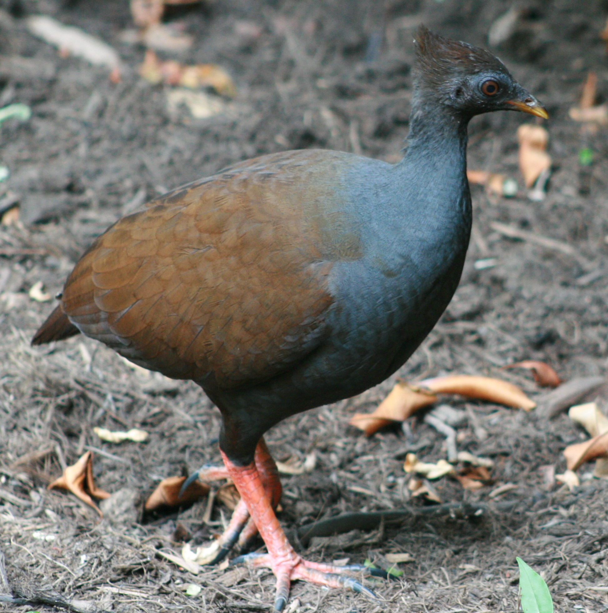 Orange-footed Scrubfowl (Megapodius reinwardt) in the Cairns botanical gardens, Queensland, Australia.